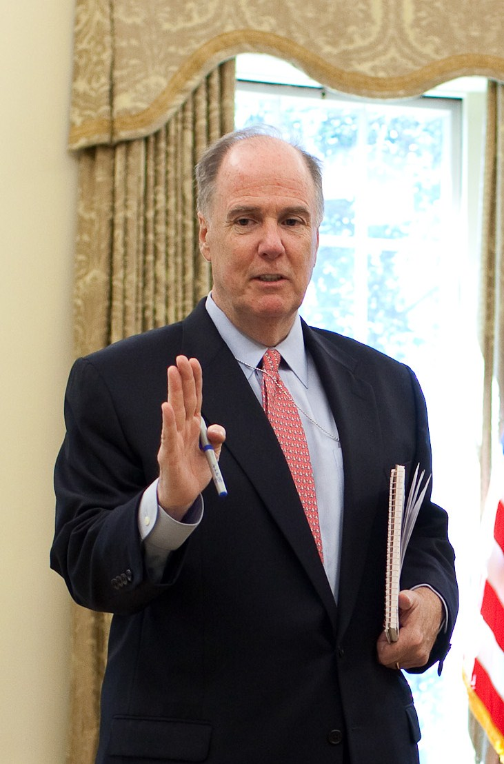 President Barack Obama meets with staff in the Oval Office, prior to his meeting with Sen. John Kerry, D-Mass., July 28, 2010. Pictured, from left, are Louisa Terrell, special assistant to the President for legislative affairs, Deputy National Security Advisor Tom Donilon, Brian McKeon, deputy assistant to the President for NSA, and Phil Schiliro, assistant to the President for legislative affairs. (Official White House Photo by Pete Souza) This official White House photograph is in the public domain from a copyright perspective, so while restrictions such as personality or privacy rights may apply, in general, manipulations are allowed.